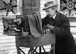 Wilson Alwyn „Snowflake“ Bentley